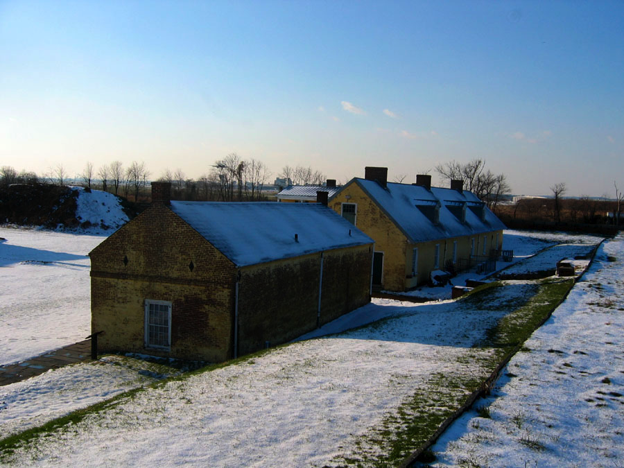 Fort Mifflin Soldiers' Barracks Taken in Philadelphia, Pennsylvania, in December 2003.